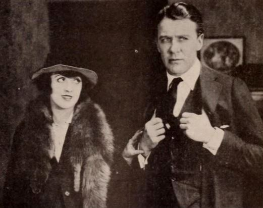 Still from the American comedy drama film The Floor Below (1918) with Mabel Normand and Tom Moore, on page 21 of the March 9, 1918 Exhibitors Herald.